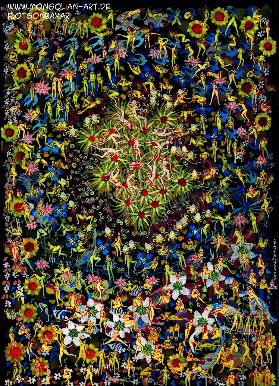 Paradise -07 Tempera on cotton, 21x30cm, Ulaanbaatar 2003, Otgonbayar Ershuu